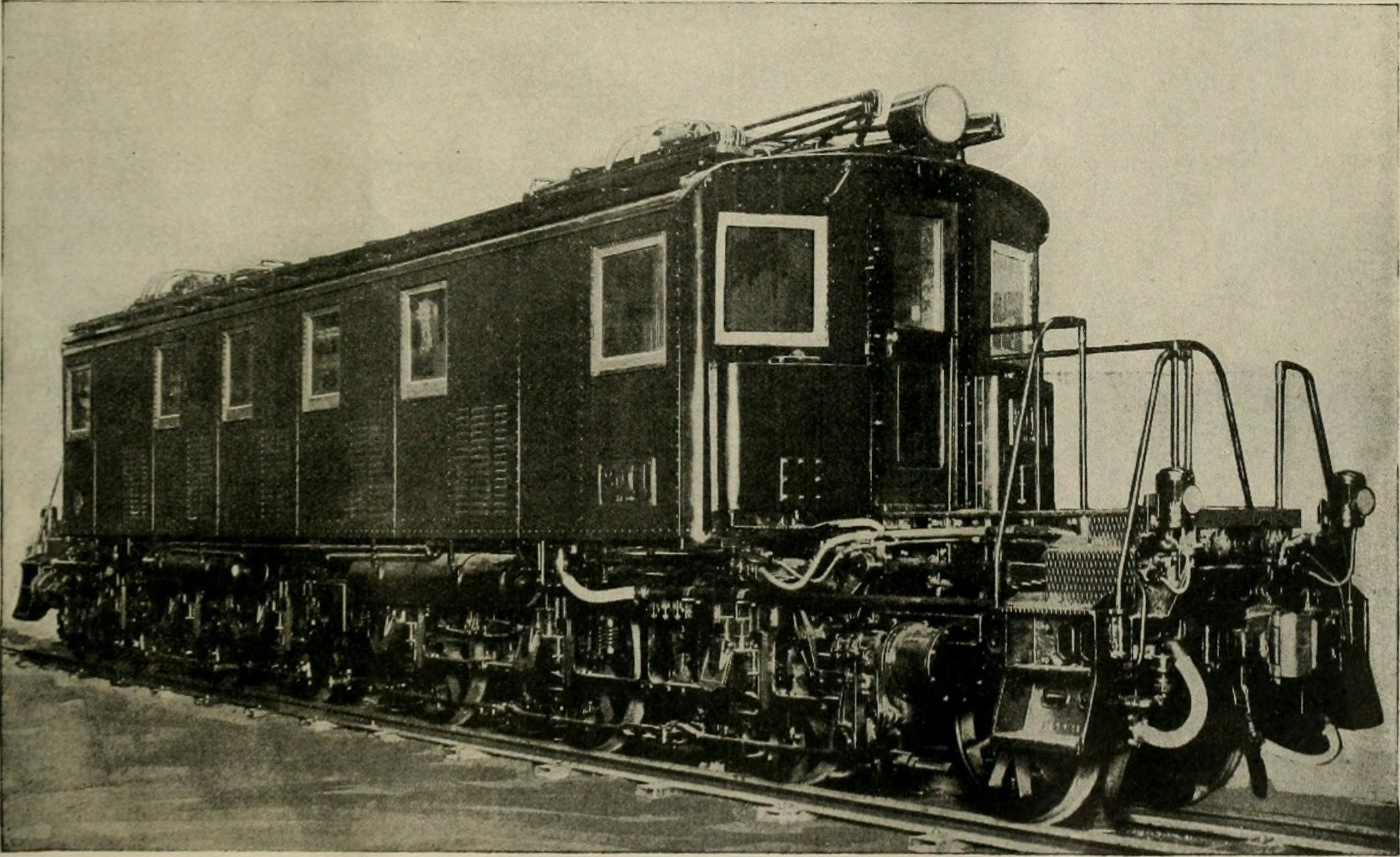 Imperial Japanese Government Railways Class 8010 (later becoming Class EF51) electric locomotive number 8011, built by Baldwin and Westinghouse in the USA